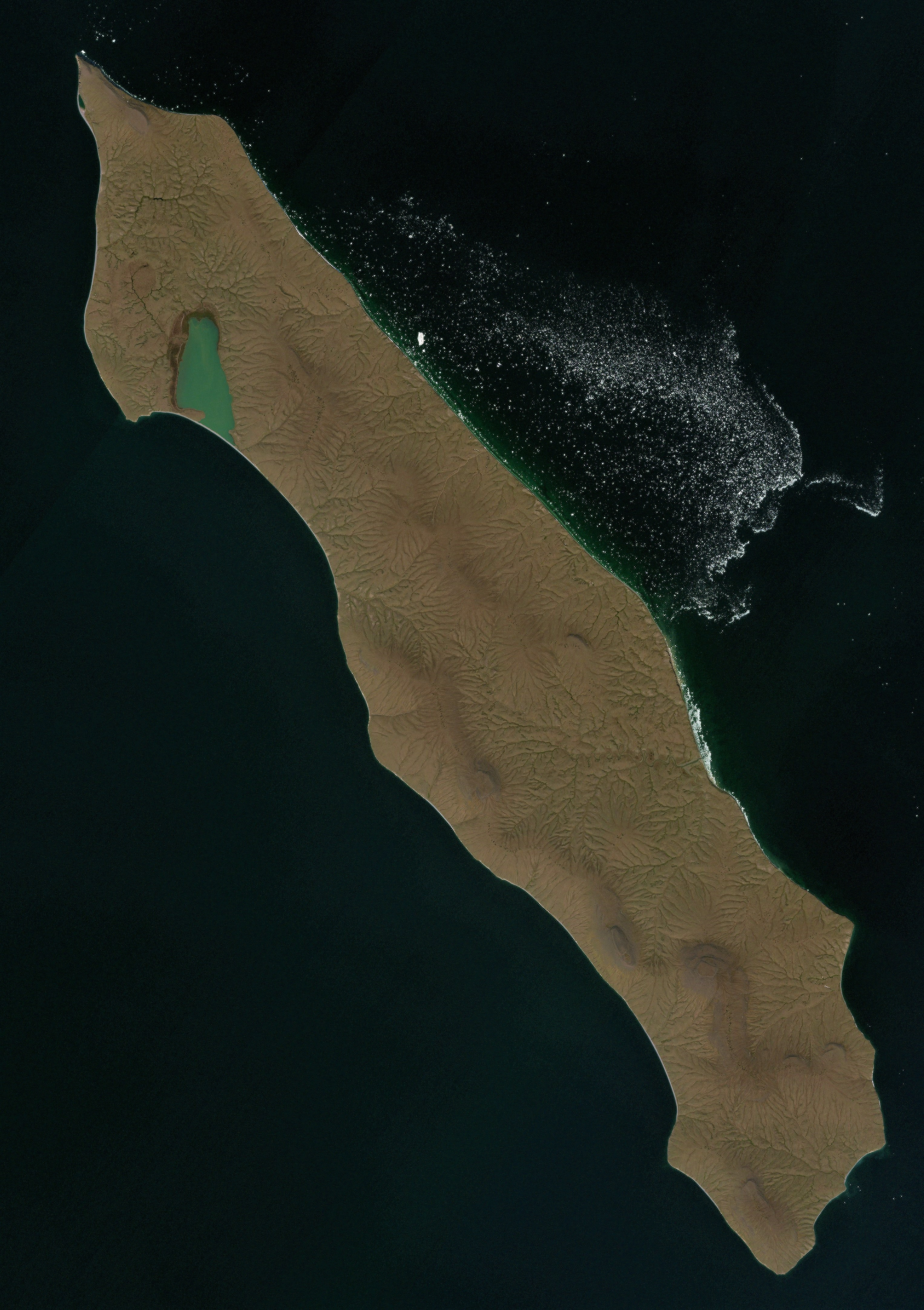 satellite image of Stolbovoy Island (Lyakhov Islands, Russia) August 3, 2019, Sentinel-2 satellite, colors near natural, resolution 10 m, floating ice floes are visible in the sea and near the coast